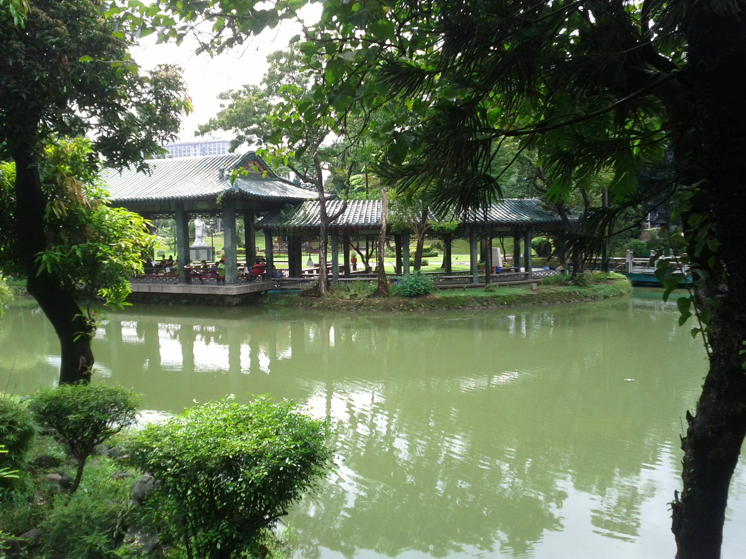 You can find this beautiful scenery inside the Chinese Garden.